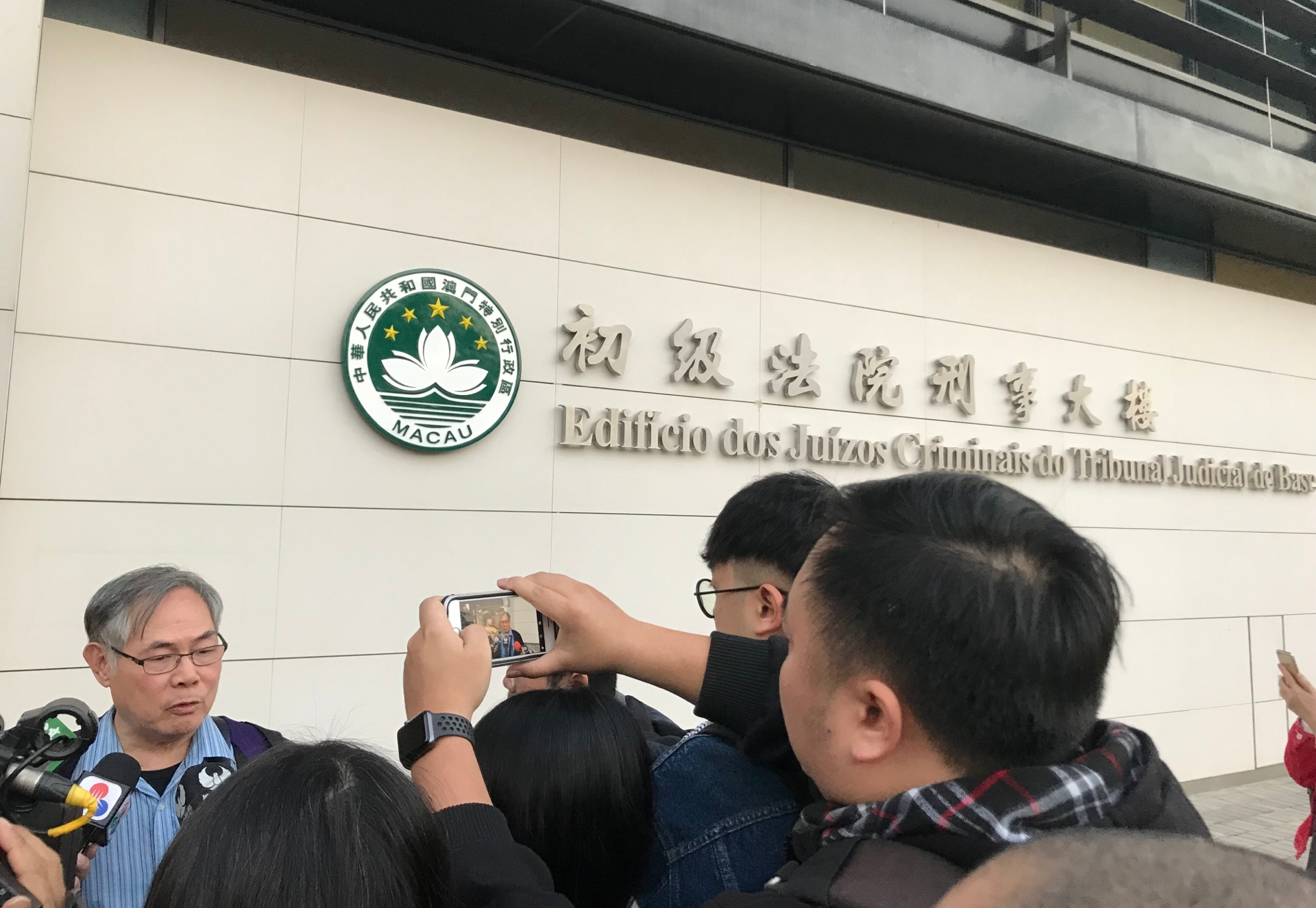 The case between PORLITEC and SOUPOU